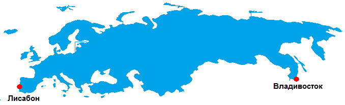 Common European area from Lisbon to Vladivostok